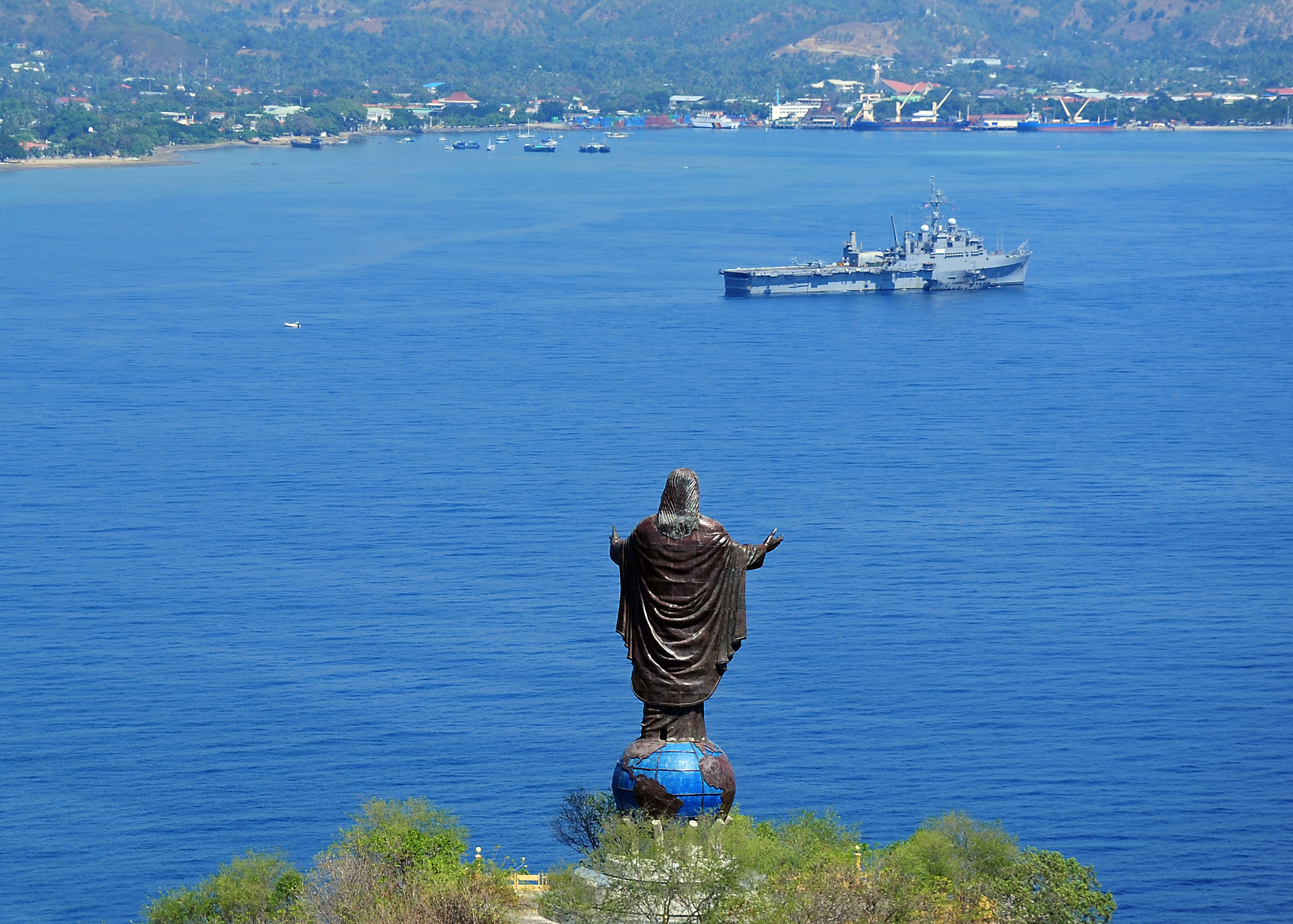 DILI, Timor-Leste (June 23, 2011) The amphibious transport dock ship USS Cleveland (LPD 7) is anchored in Dili Harbor below the statue of Cristo Rei, or Christ the King, during the Timor-Leste phase of Pacific Partnership 2011. Pacific Partnership is a five-month humanitarian assistance initiative that will make port visits to Tonga, Vanuatu, Papua New Guinea, Timor-Leste and the Federated States of Micronesia. (U.S. Air Force photo by Tech. Sgt. Tony Tolley/Released)